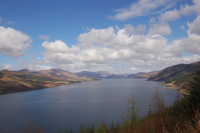 Loch Carron from A890 viewpoint near Stromeferry